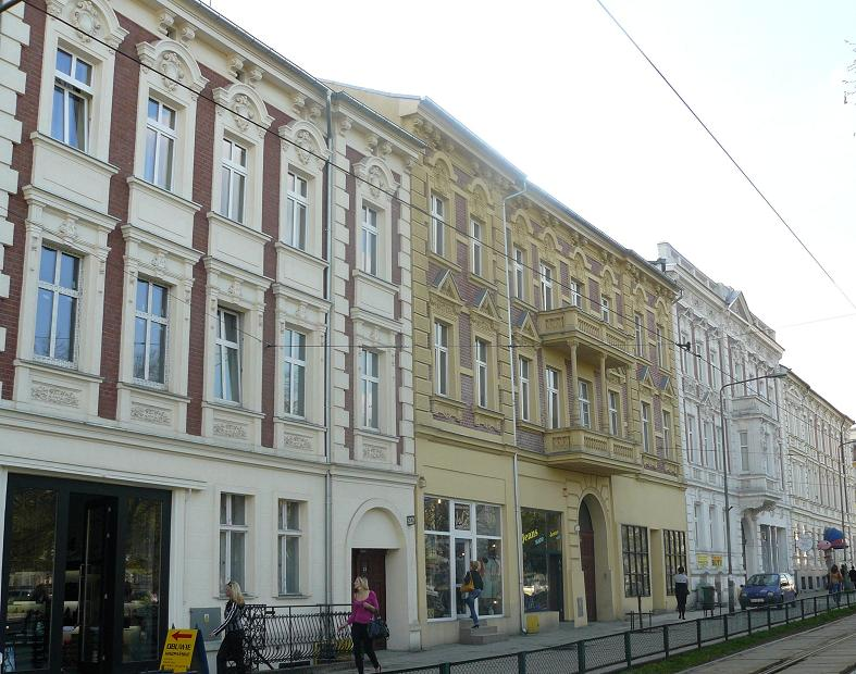 ul Chrobrego w Gorzowie Wielkopolskim.